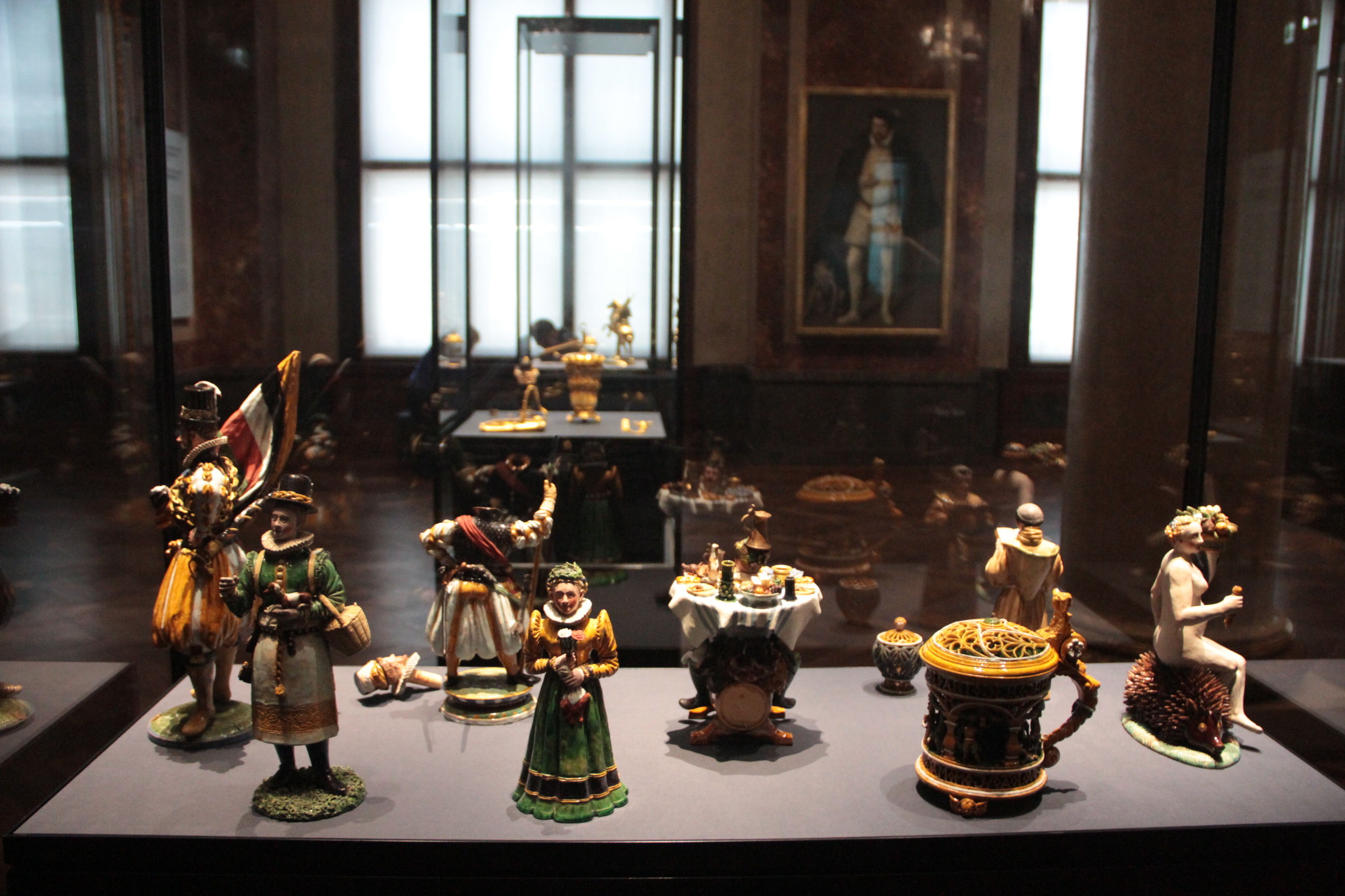 Kunstkammer Wien